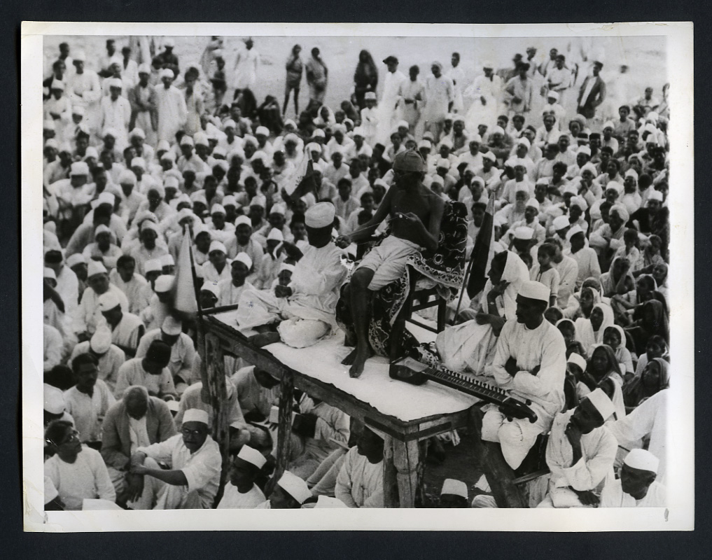 While addressing his followers, Gandhi spins by hand; a news bureau photo, 1930 Source: ebay, Oct. 2008